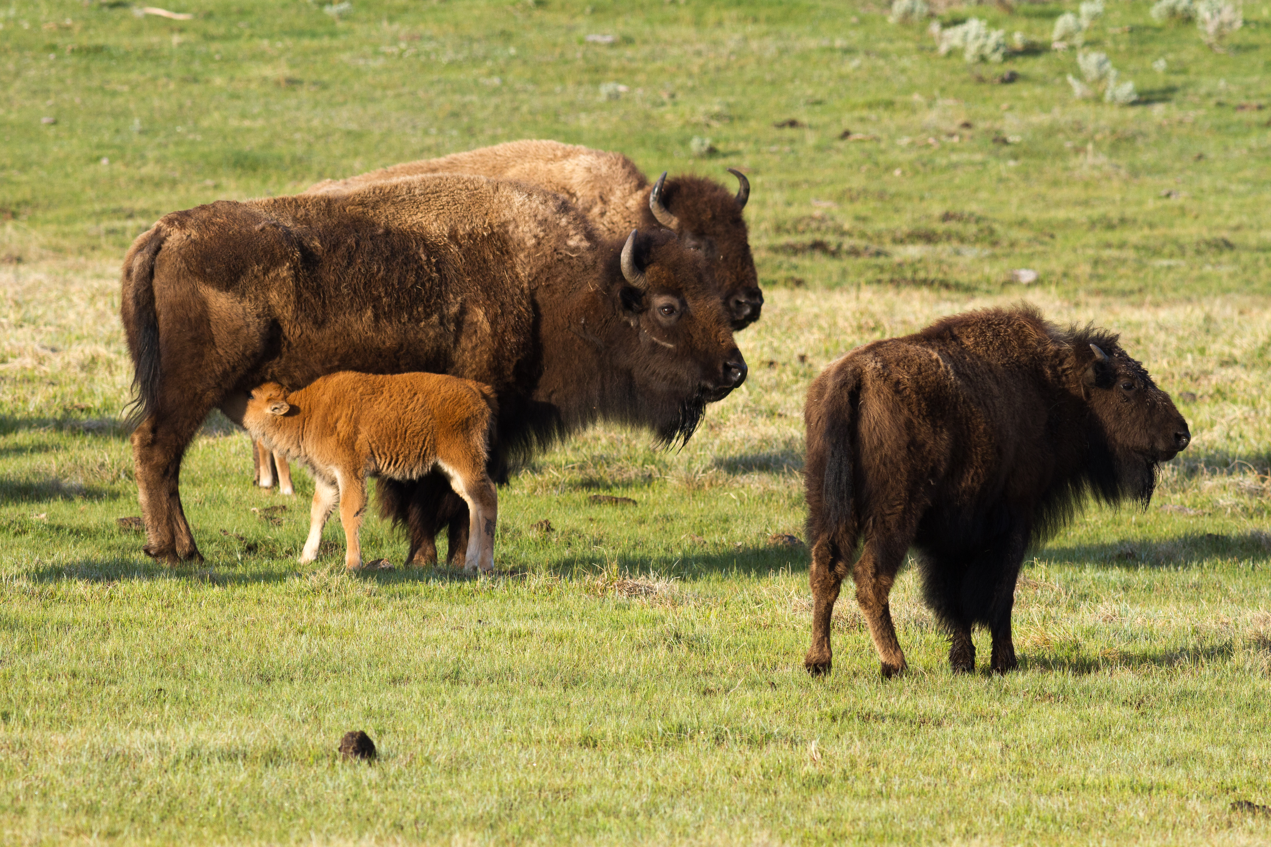 American bison (Bison bison bison) calf suckling in Yellowstone National Park, Wyoming, United States